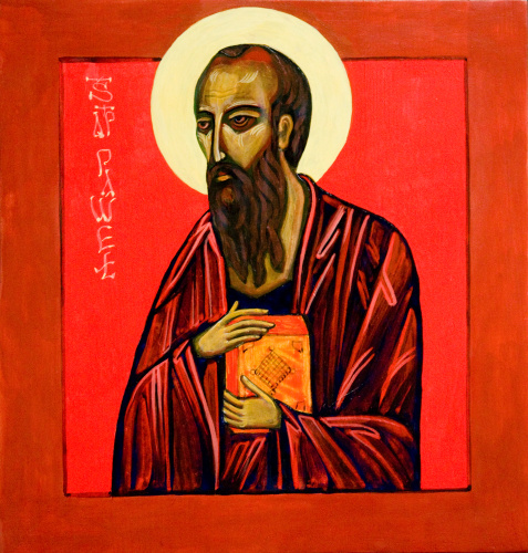 Icon of Saint Paul - Paul of Tarsus